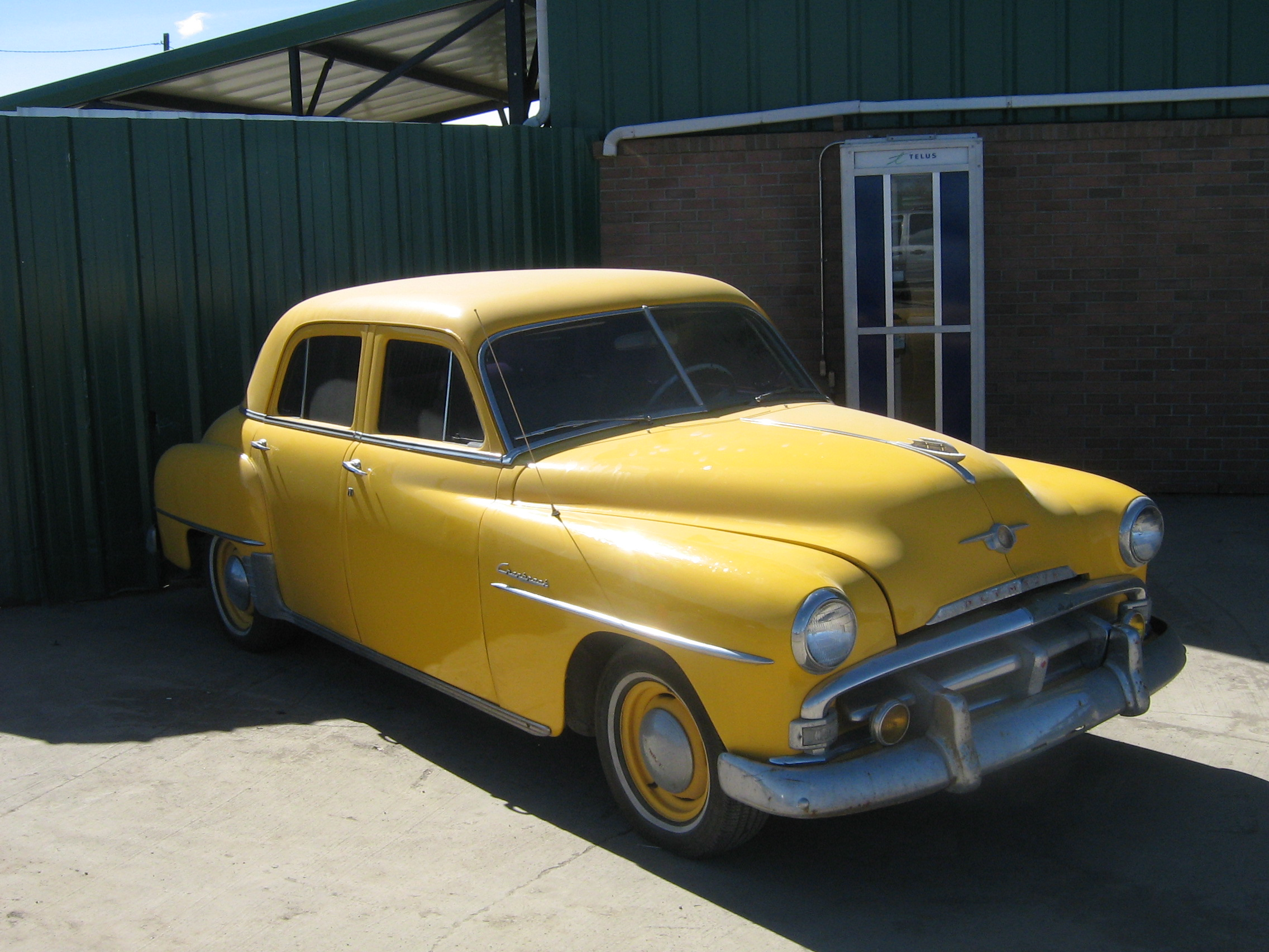 P-23 series Plymouth Cranbrook Four Door Sedan of 1952, parked outside the entrance to the scrapyard.